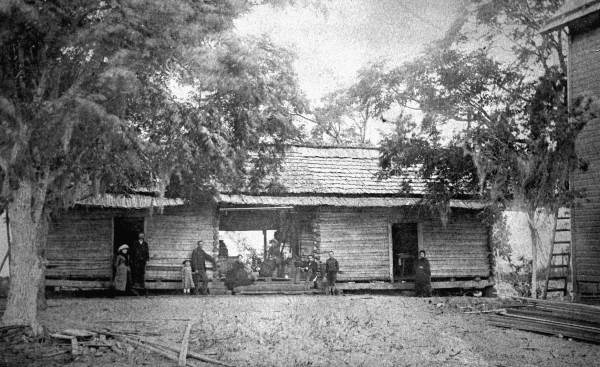 L-R: Florence Steere Henley, Robert B. Henley, Katie Swan, Benjamin Swan, Hannah S. Swan, Mary Swan, Leora Hill, Ira Allen, Fred Swan, Helen Carpenter.